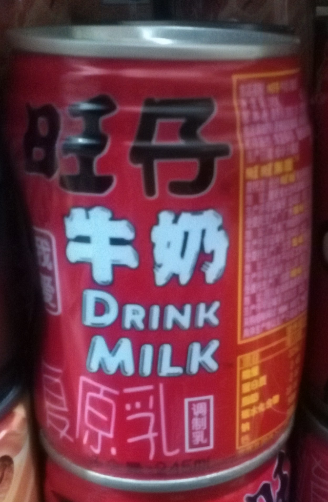 Wang Zai Milk - Want Want China